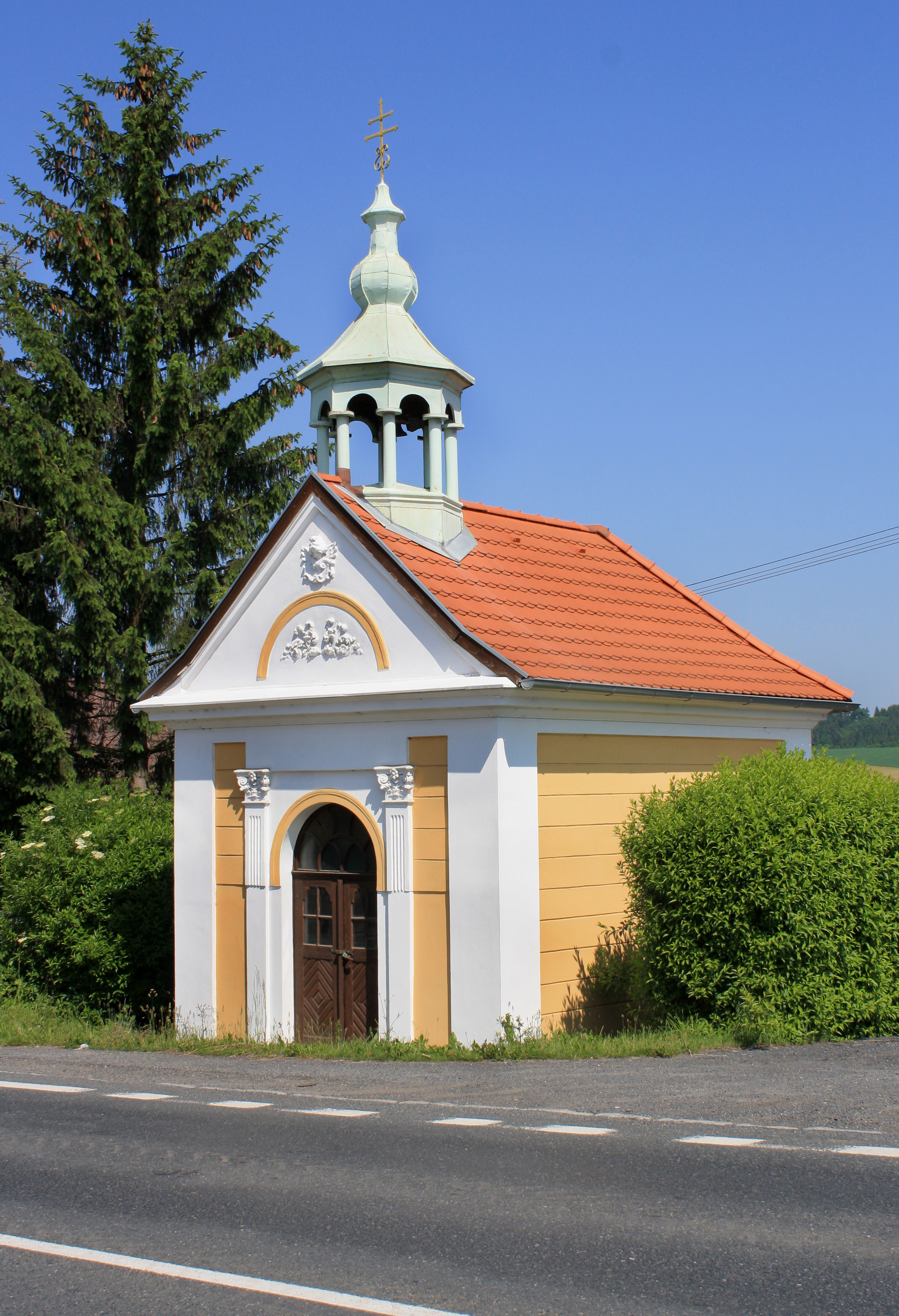 Small chapel in Mochtín, Czech Republic